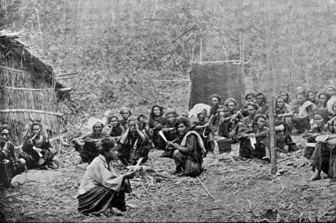 Wa headmen